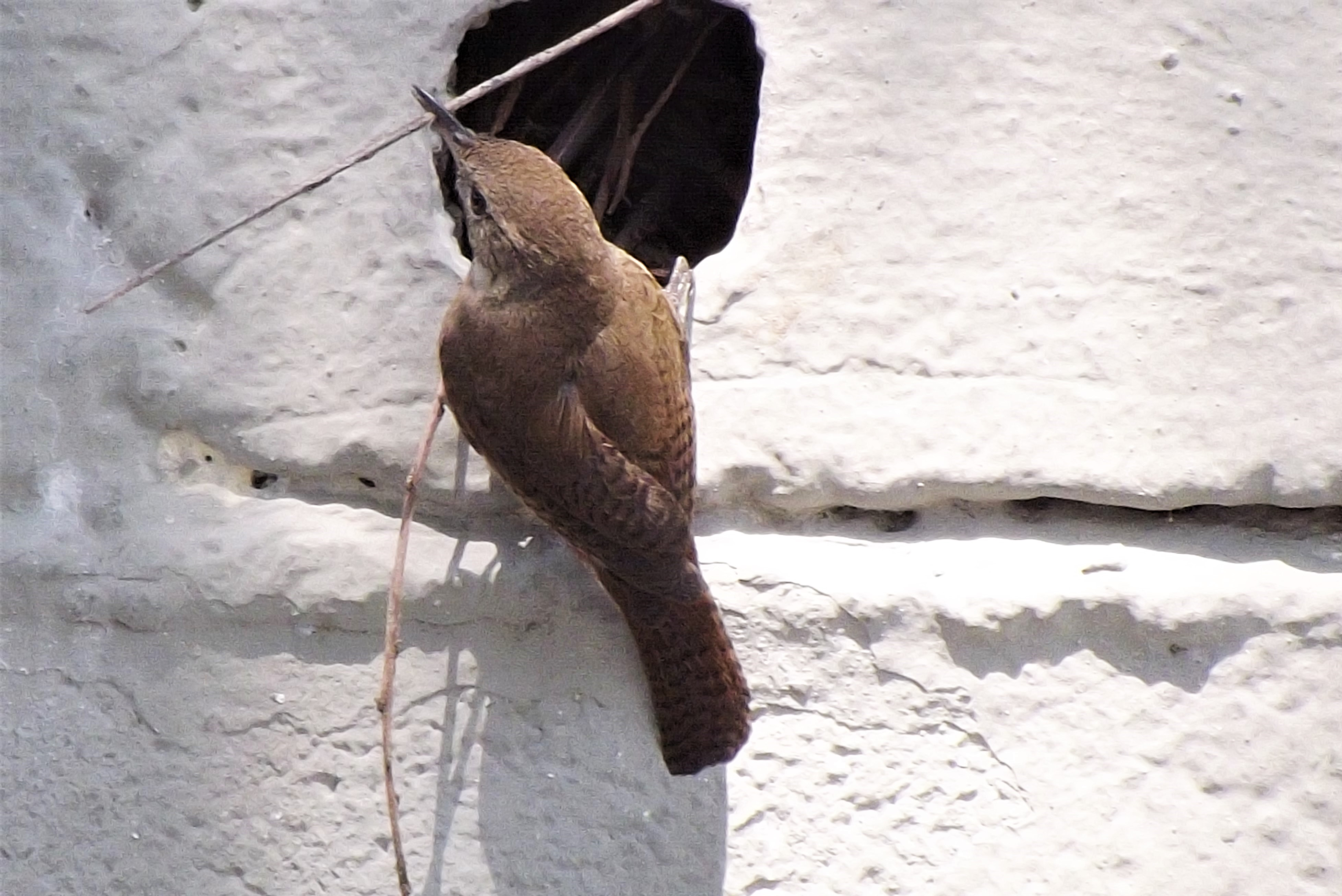 At the beginning of the breeding season it is very common to observe both the male and the female of the House Wren (Troglodytes aedon)) carrying the material to repair, acvondicionar or make the nest that they will use in the season.